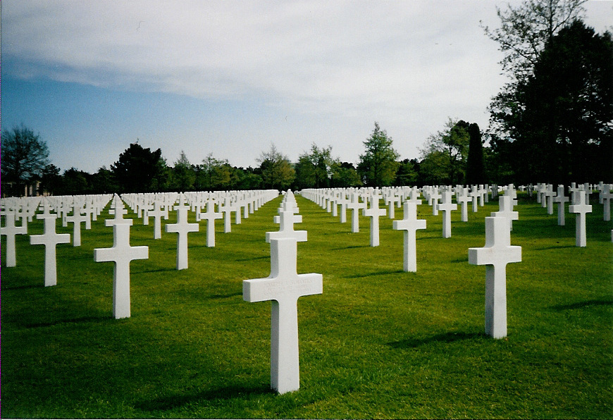 Cemetary Coleville sur Mer. American Battle Monuments Commission